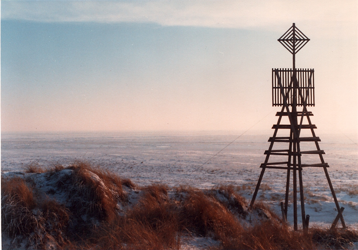 Triangulation beacon on Willemsduin, Schiermonnikoog, The Netherlands